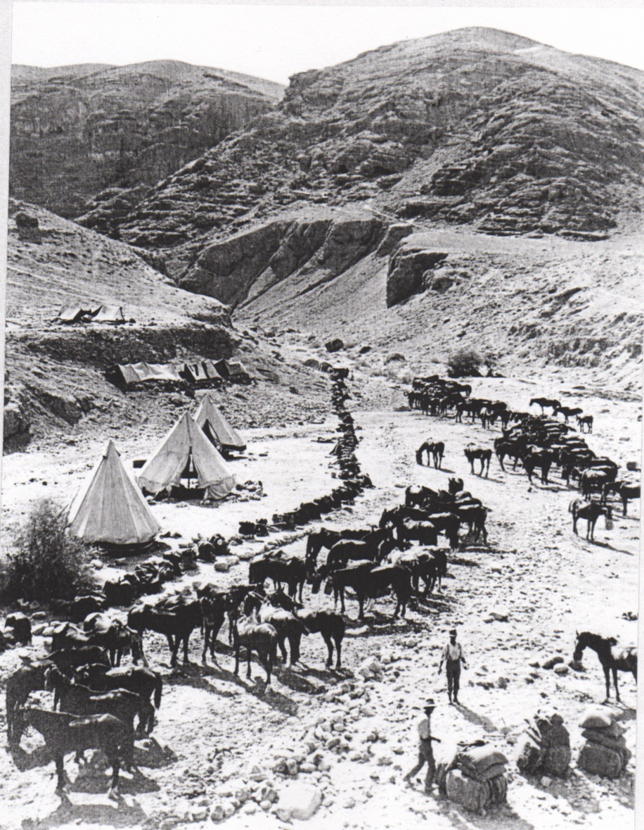 Horse lines of "A" Squadron 9th Australian Light Horse Regiment, in the Jordan Valley